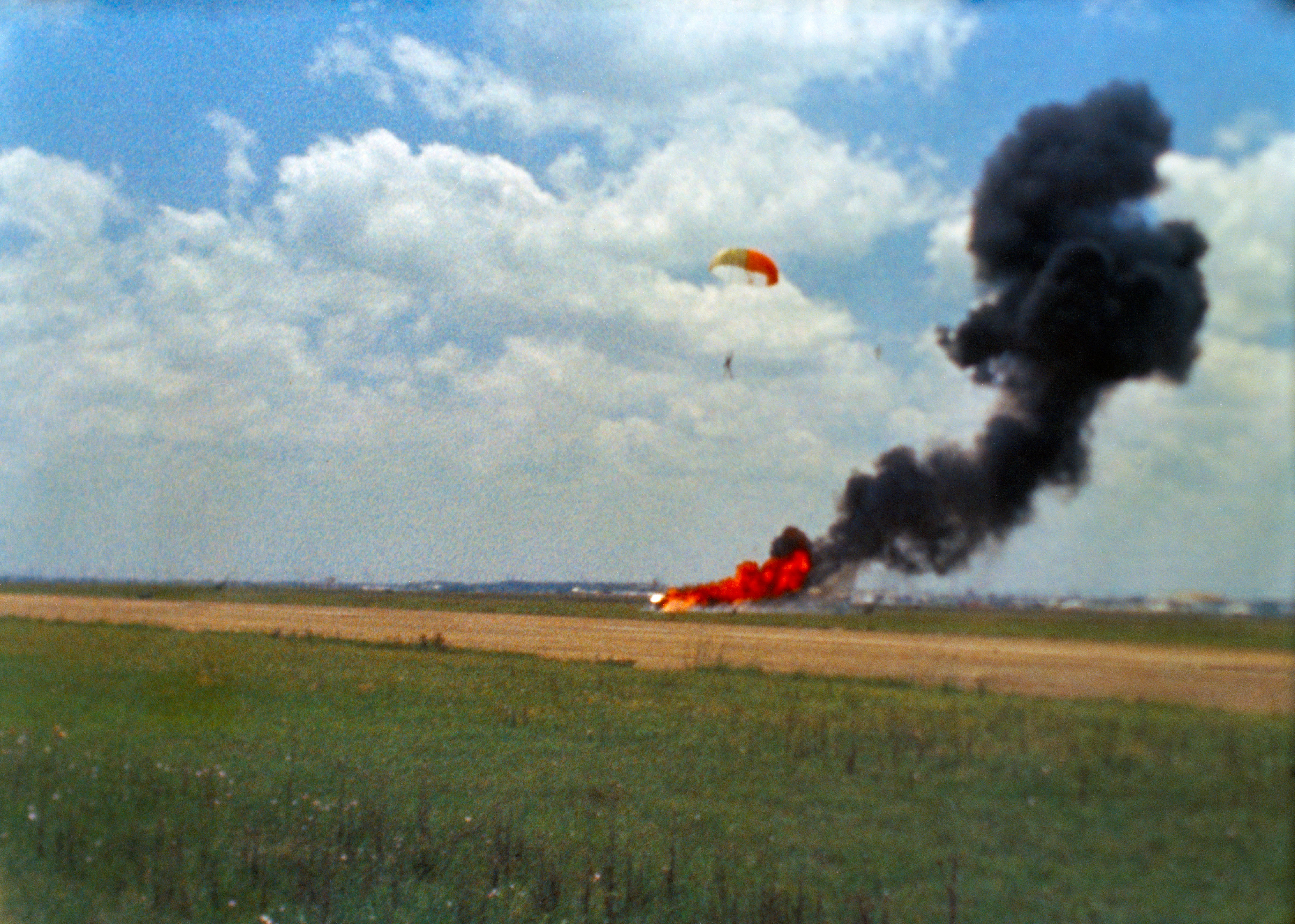 Neil Armstrong floats safely to the ground as Lunar Landing Research Vehicle (LLRV) no.1 crashes at Ellington Air Force Base 6 May 1968.